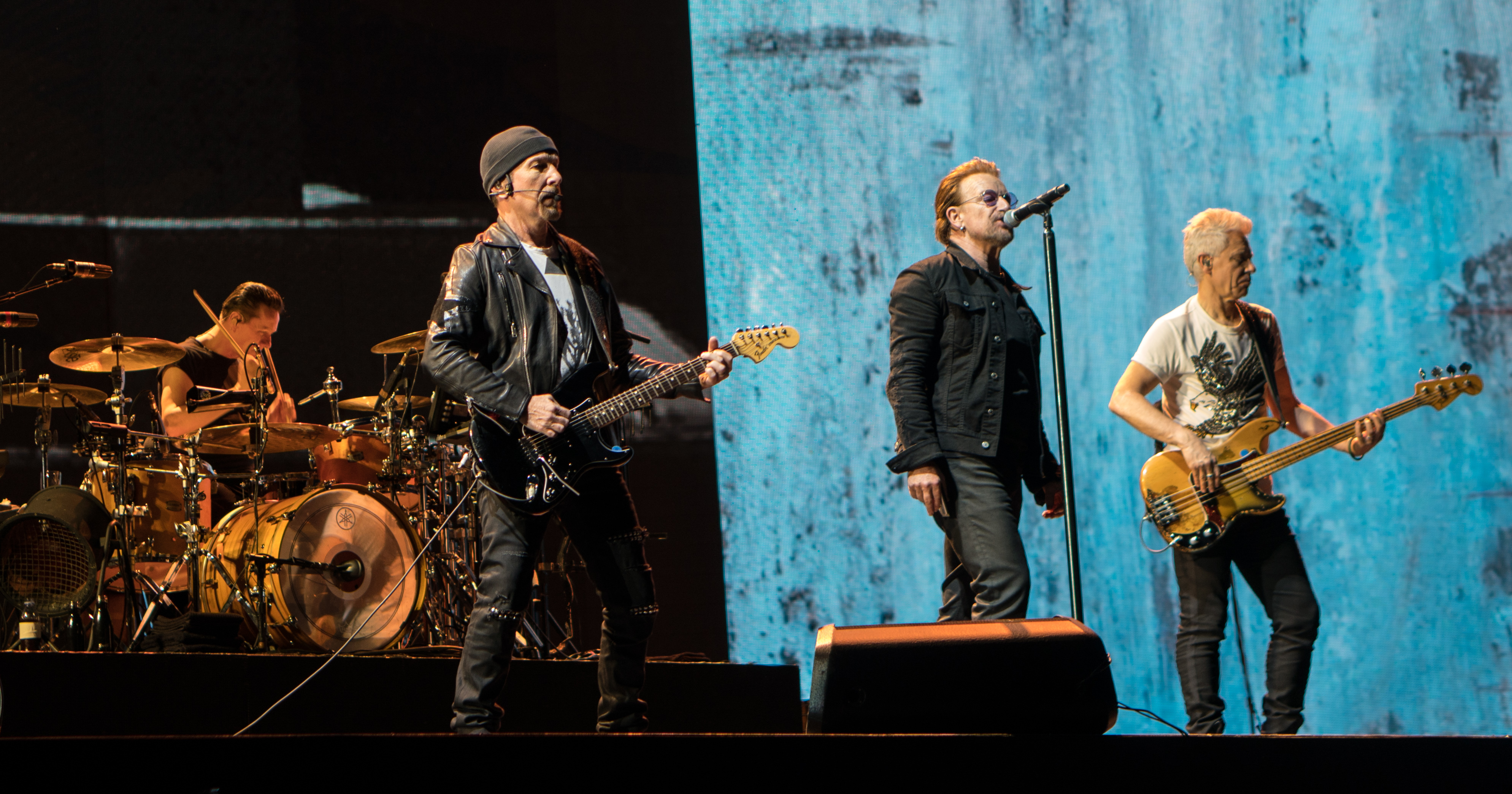 U2 performing on the Joshua Tree Tour 2017 in Brussels, Belgium on August 1, 2017